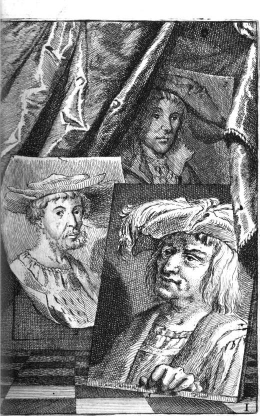 P72 I Jan Matsys - Huig Jacobsz - Lukas Kornelisz de Kok